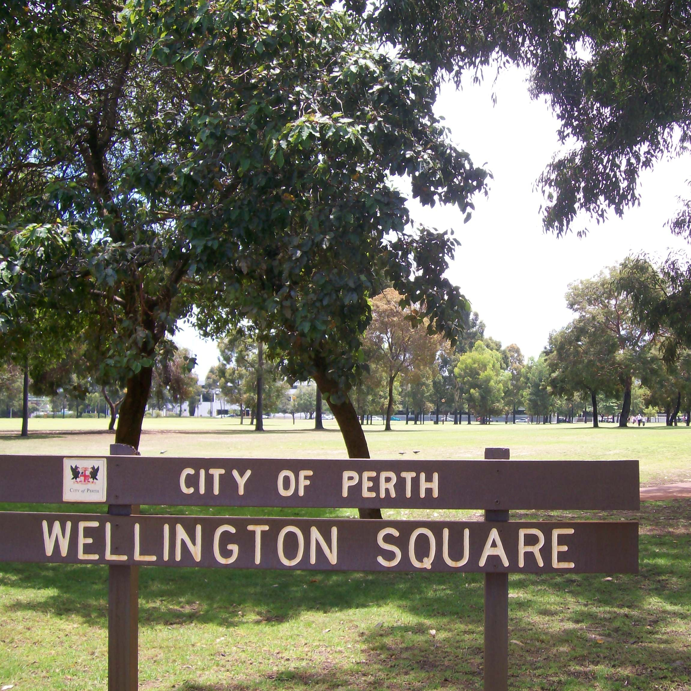 A photo taken of Wellington Square in East Perth.